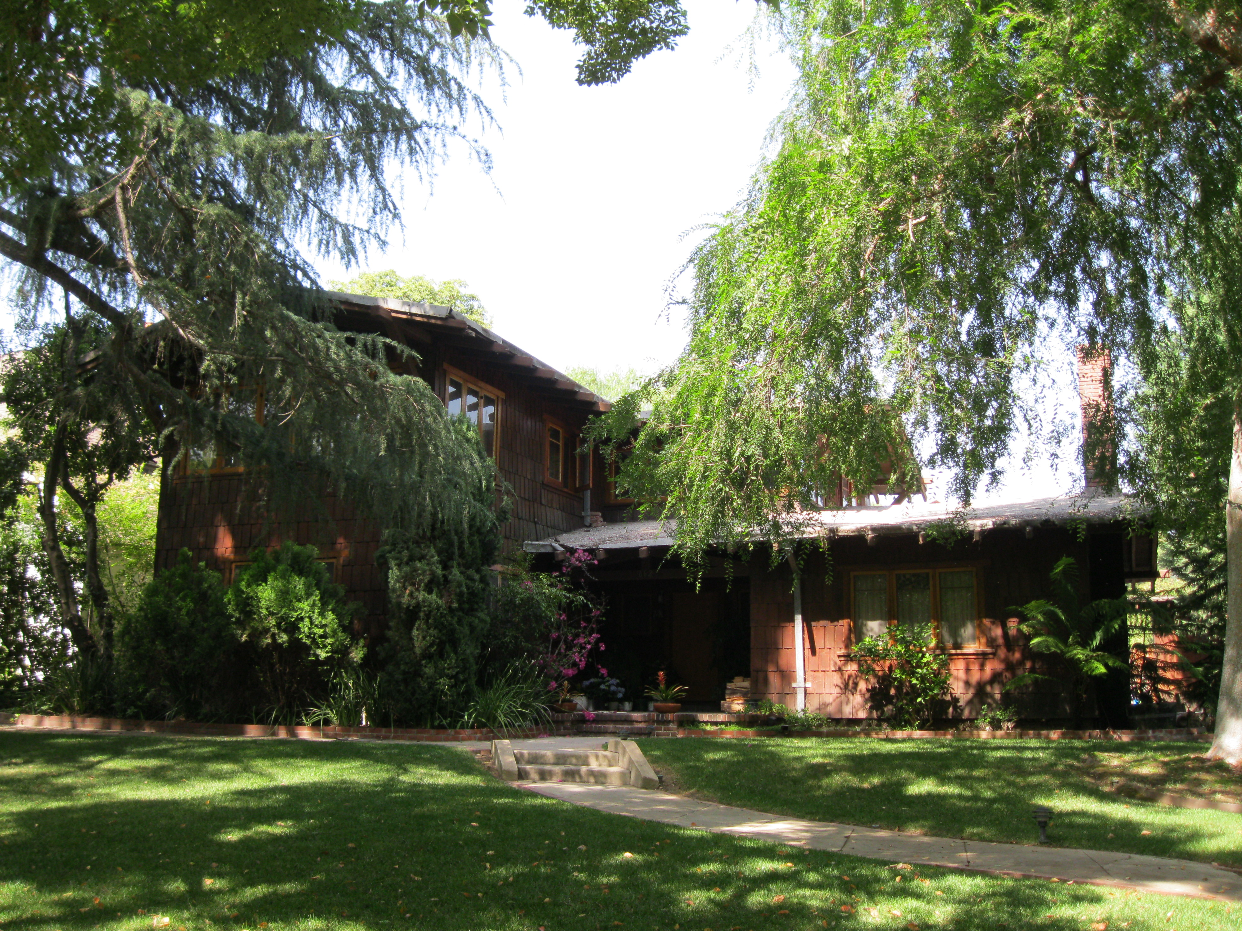 The house at 662 Prospect Boulevard, which is part of the Prospect Historic District in Pasadena, California. The district is listed on the National Register of Historic Places.